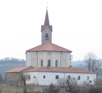 Prem, village in Slovenia